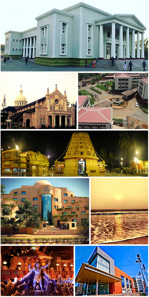 Sources: Townhall: , Our Lady of Rosary: , Yenepoya University: , Kudroli Temple: , Infosys: , Thannirbhavi beach: , Shiva Statue: , Forum Fiza Mall